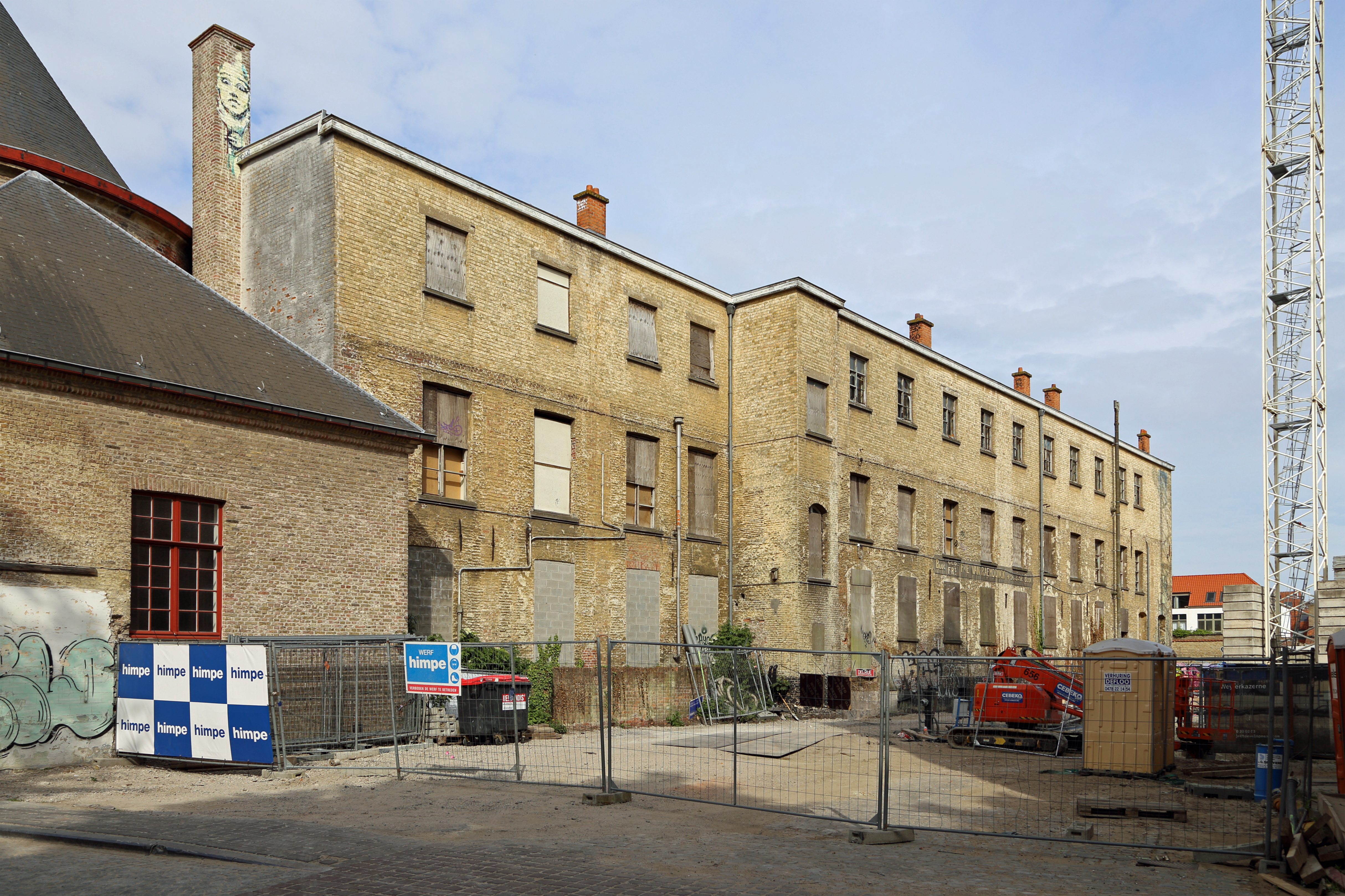 Bruges (Belgium), Hugo Losschaertstraat: former barracks "Majoor Weyler", previously convent of Carmelite nuns